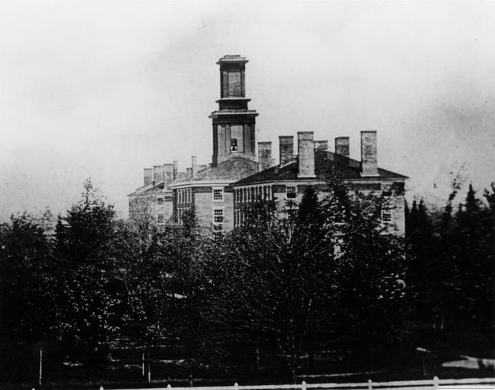 The oldest known photograph of Colby, a daguerreotype taken in 1856 of the three central buildings on campus: South College, Recitation Hall, and North College